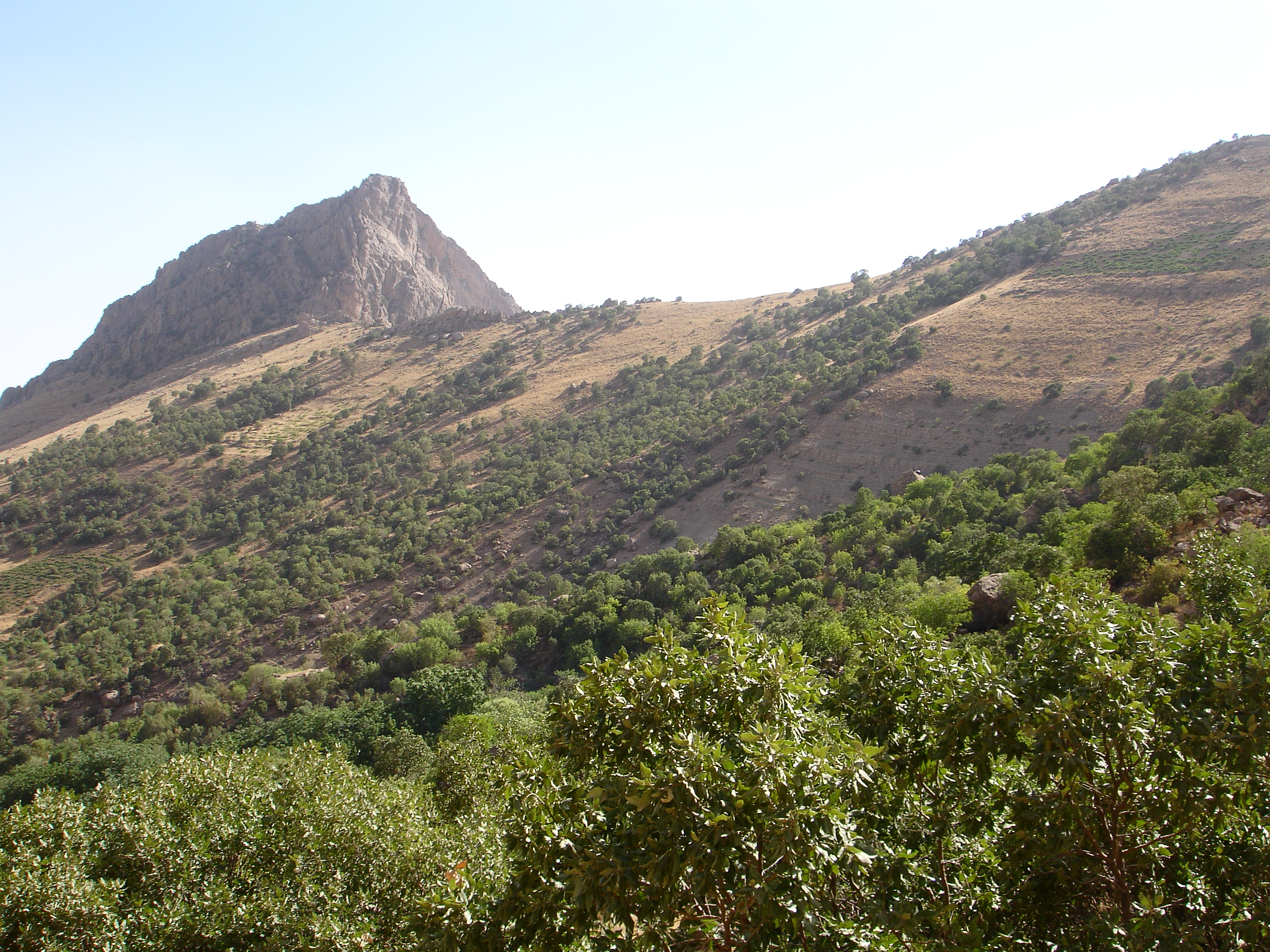 Landscape of Iraqi Kurdistan. Please refer to meta-data for more info.